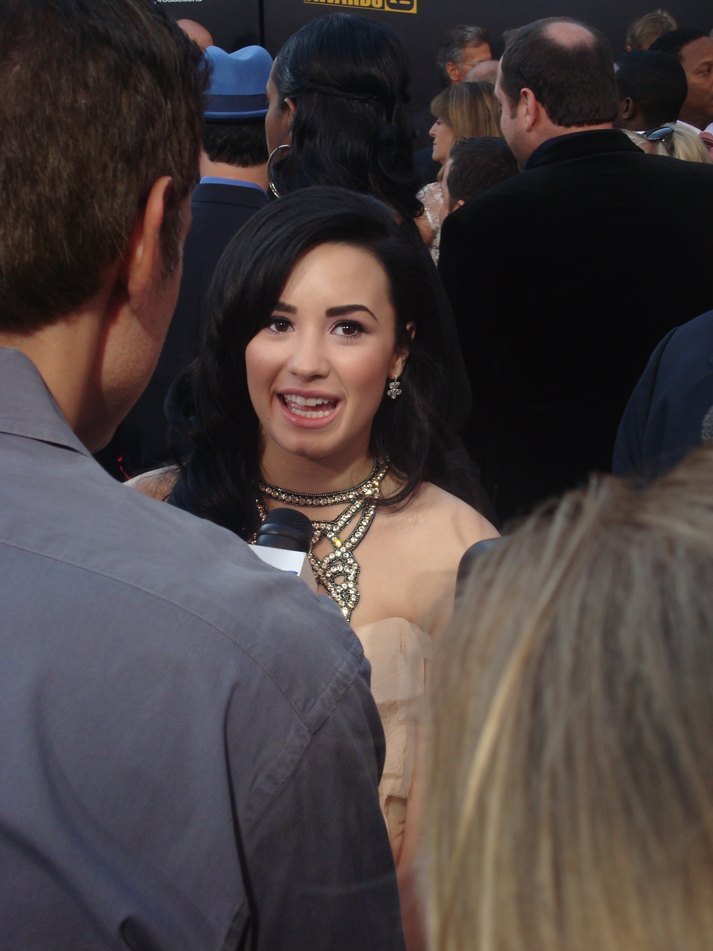 Demi Lovato at the 2009 American Music Awards Red Carpet